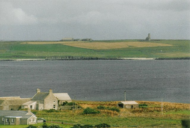 Hurtiso, and St Magnus Church Egilsay In the foreground Hurtiso seen from Essaquoy up the hill. Over the other side of the water is the tower of St Magnus Church on Egilsay, where the saint spent his last night before martyrdom some half-mile south (right) of the church.